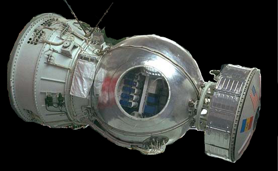 Soviet Cosmos unmanned satellite/spacecraft. See File:Bion spacecraft original.jpg for more info.